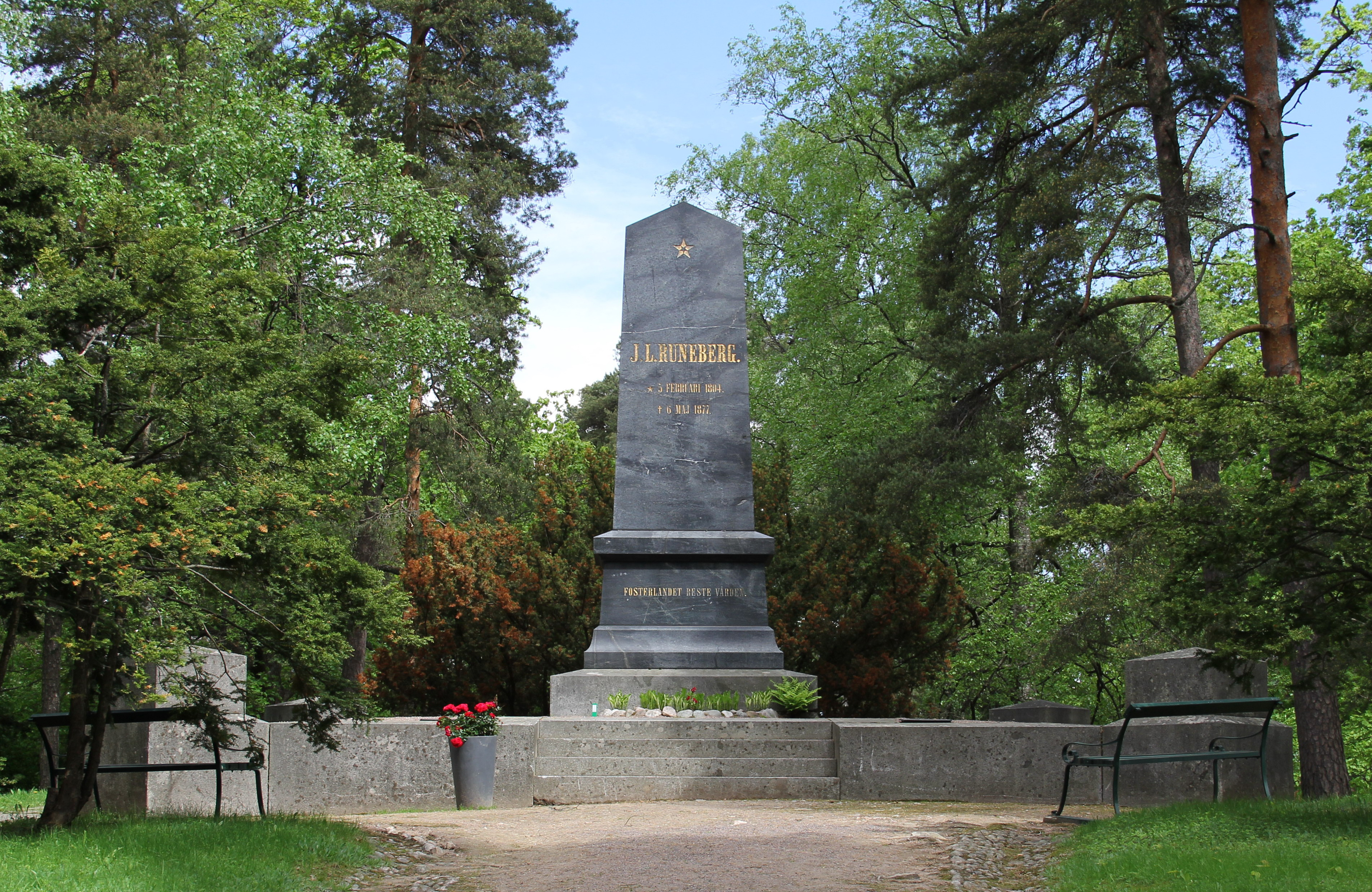 Johan Ludvig Runeberg grave memorial in Näsinmäki Graveyard, Porvoo, Finland. Monument design by architect Ferdinand Öhman, unveiled in 1888. This is also the gravesite of his wife Fredrika Runeberg, her name is on the other side of the monument.